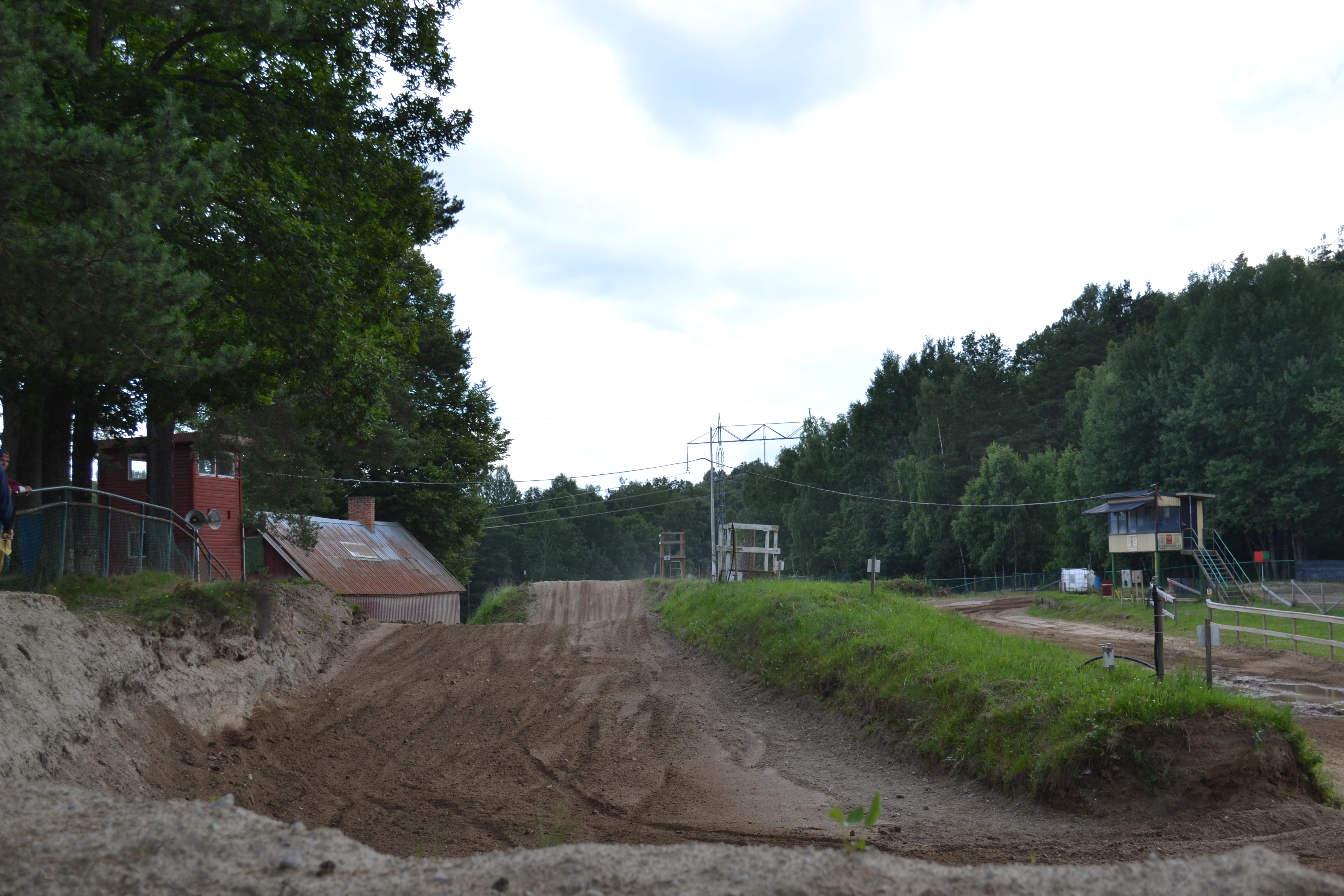 part of the motocross track Ljungrydabanan in Olofström, Sweden. Club: Mk Jämke